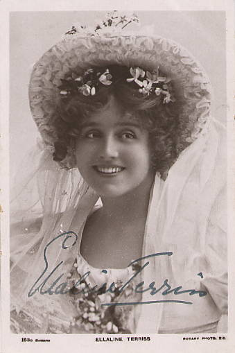 Ellaline Terriss - signed postcard, glossy, Rotary, 159c, c.1902